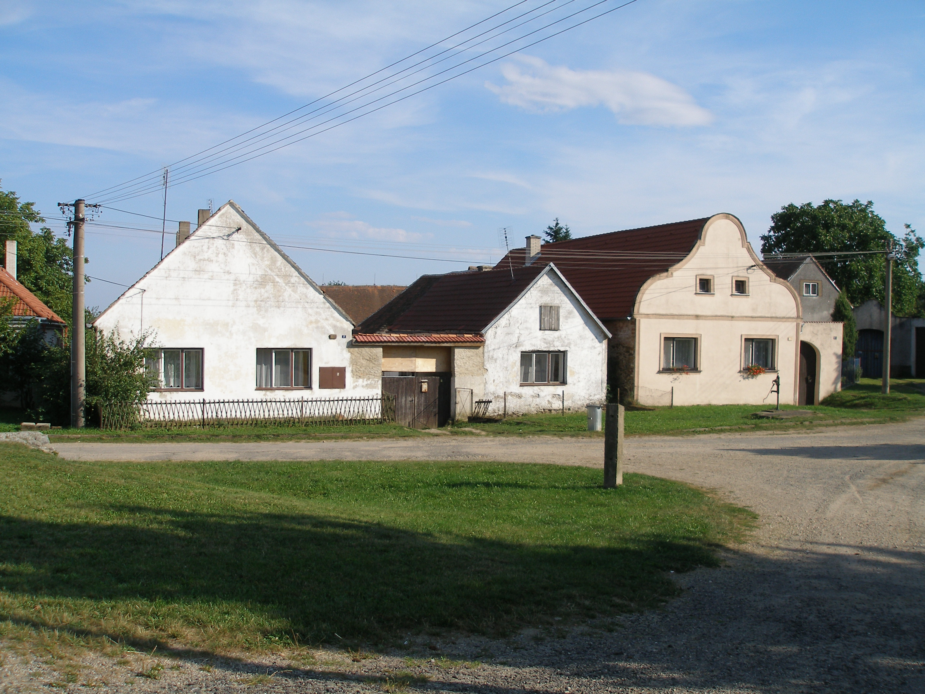 Županovice (Jindřichův Hradec district) - the Eastern side of the square